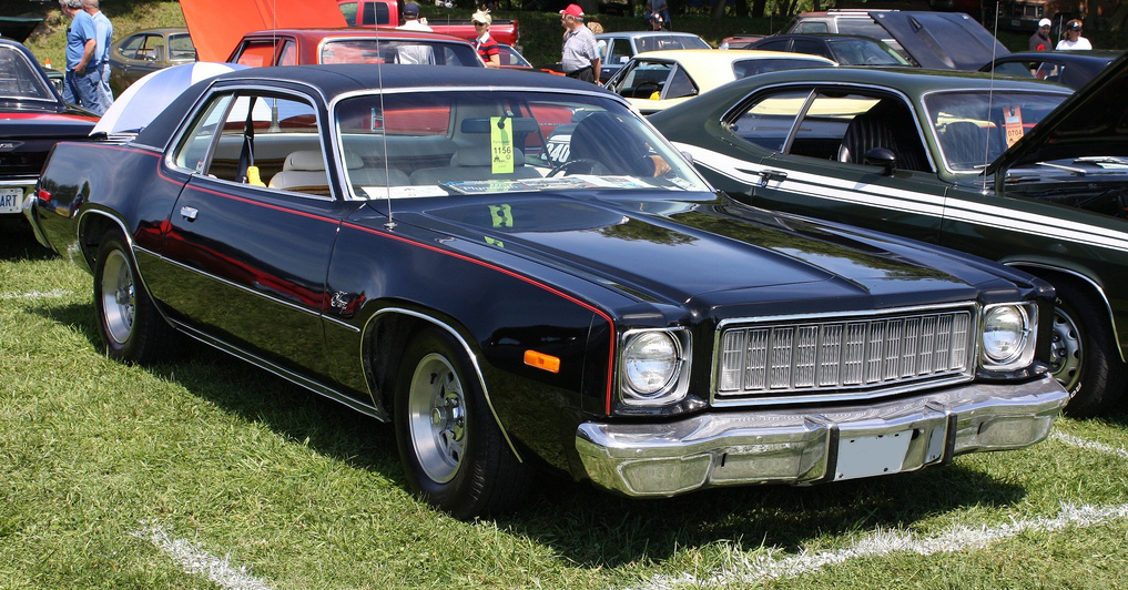 1975 Plymouth Fury coupe B-body